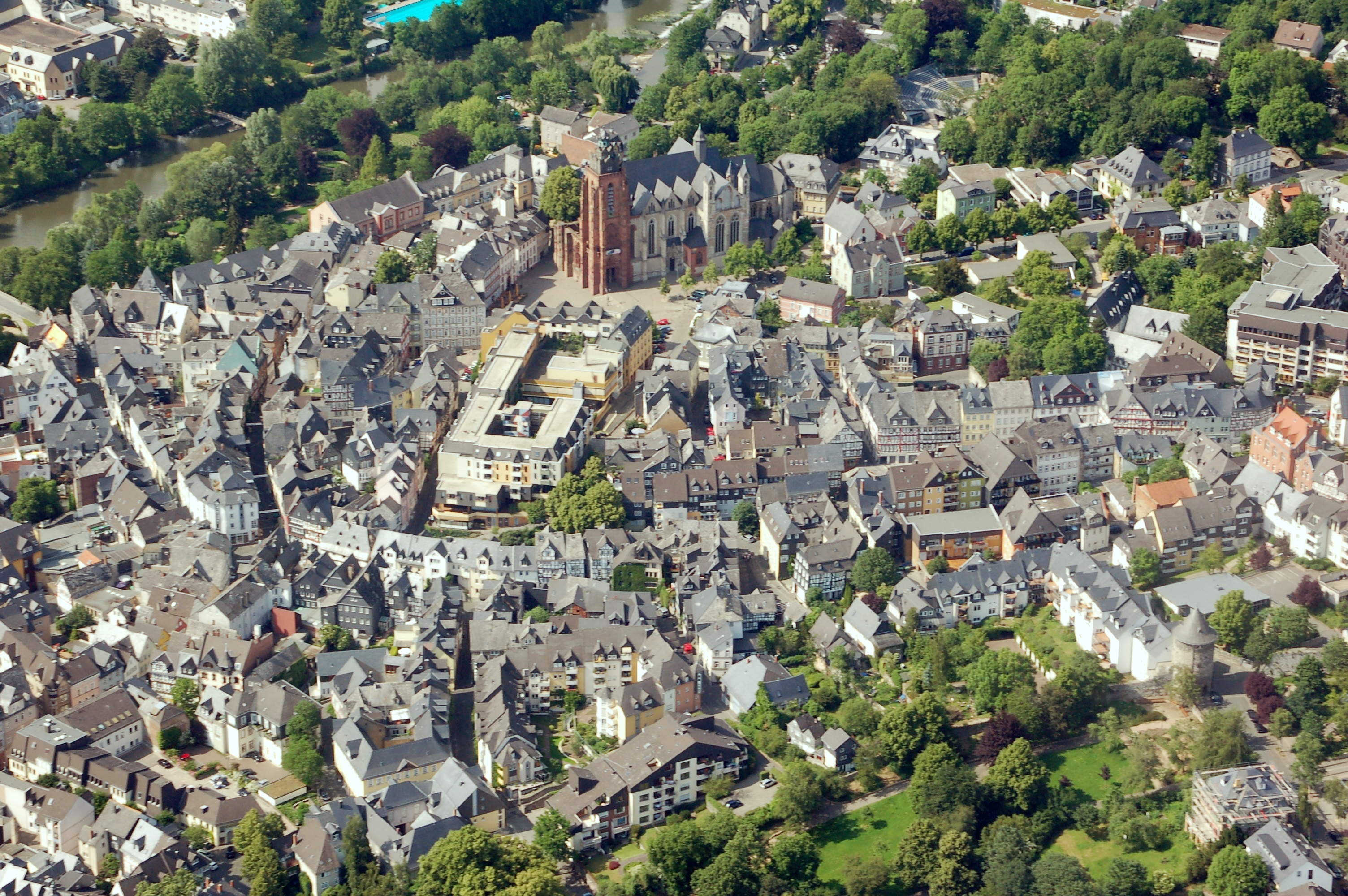 Aerial photograph of Wetzlar, Hessen, Germany